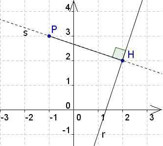 distance of a point from a line